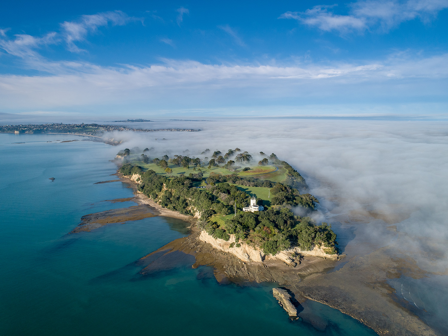 Early morning fog lingering around Musick Point, East Auckland